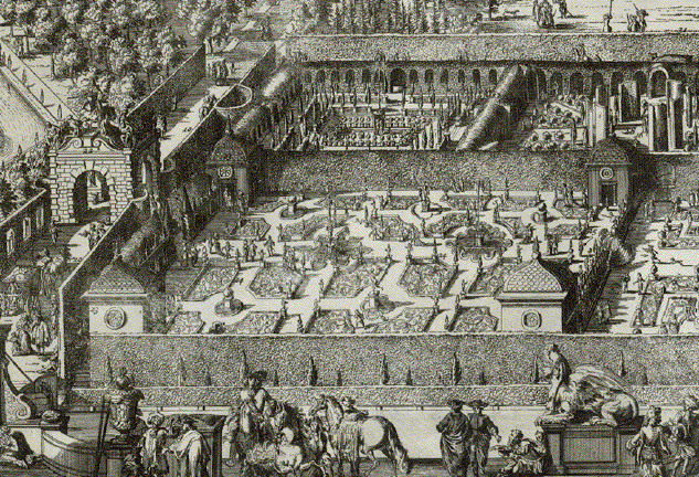 "'t Vermaarde Park van Anguien - Le Fameux Parc d'Anguien" - Detail of the copper etching by Frederic de Wit. Amsterdam. Ca. 1650